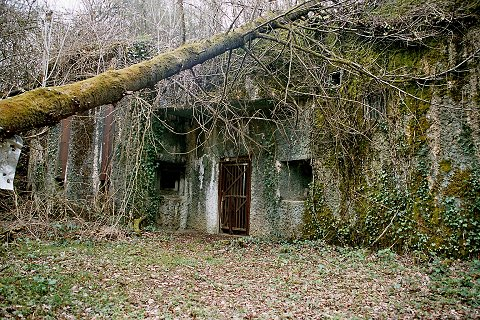 The block 3 (entrance) at the work of Thonnelle